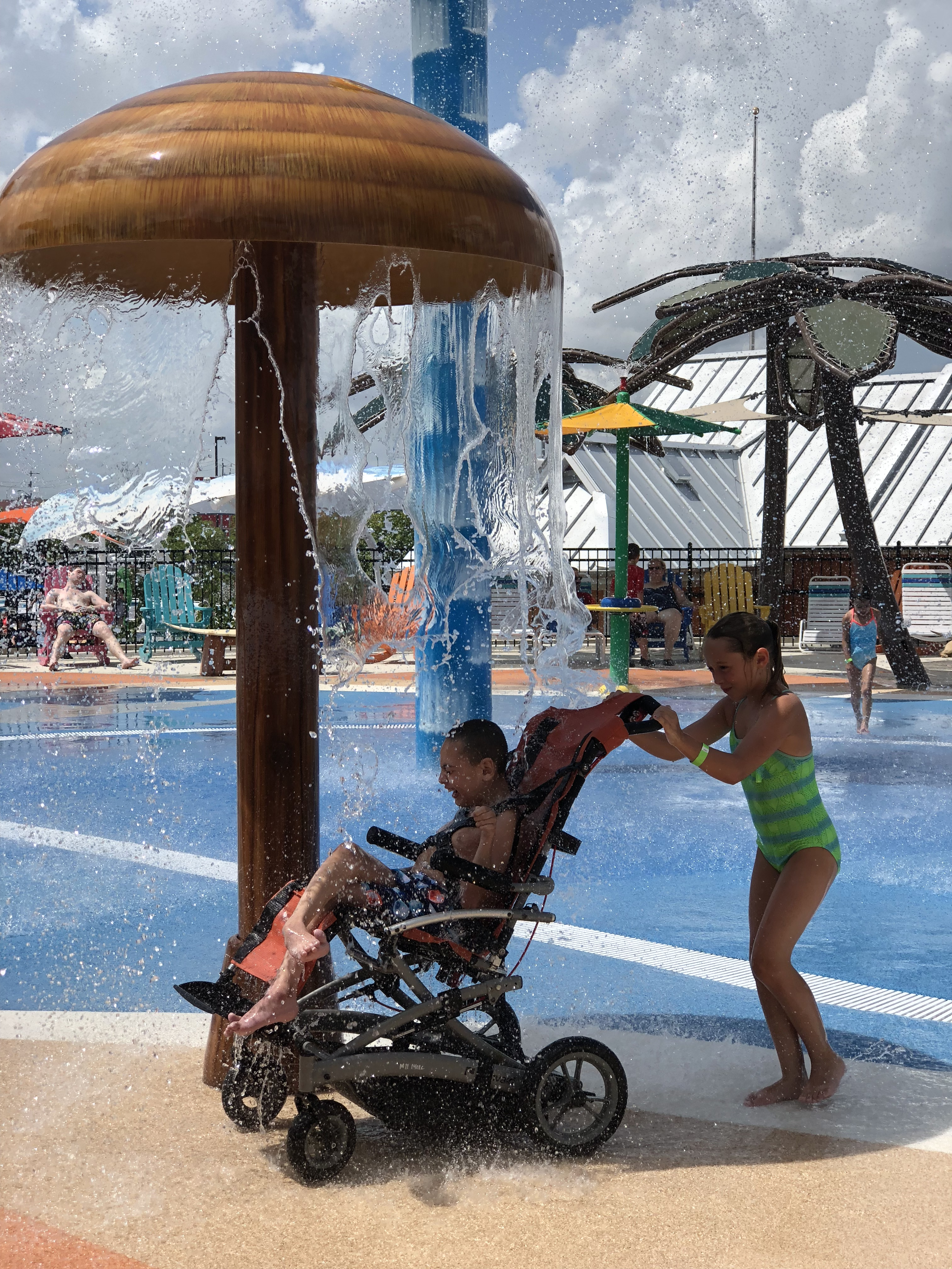 Will's Hang 10 Harbor at Morgan's Inspiration Island